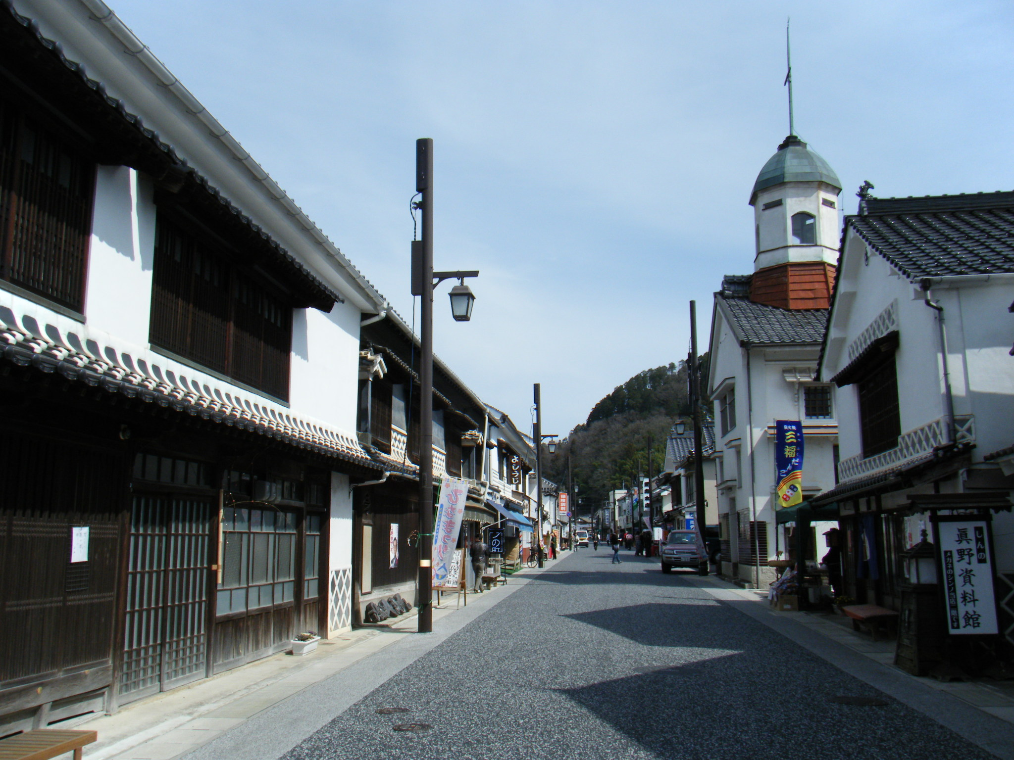 Joge_town